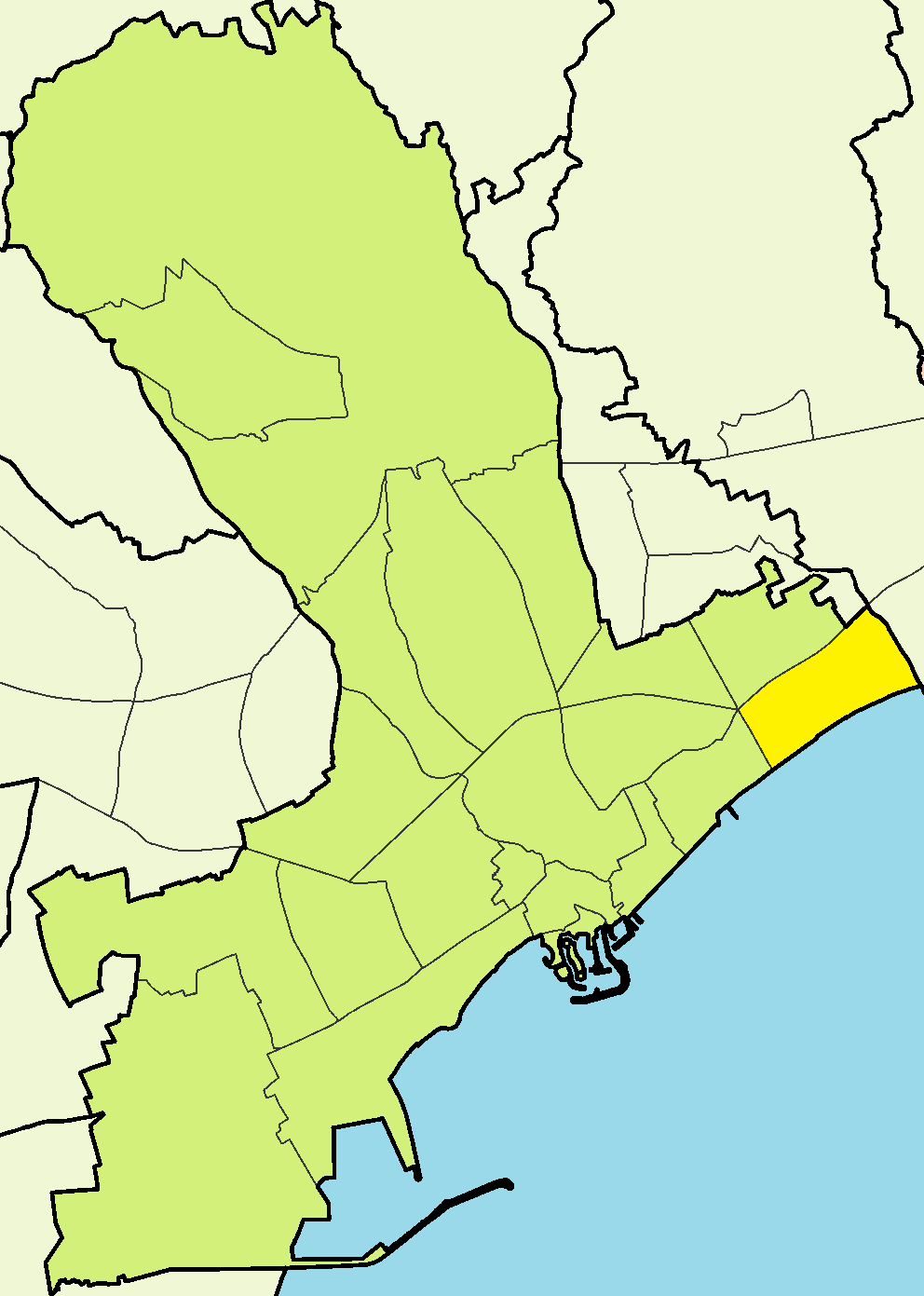 Neapoli in Limassol Municipality